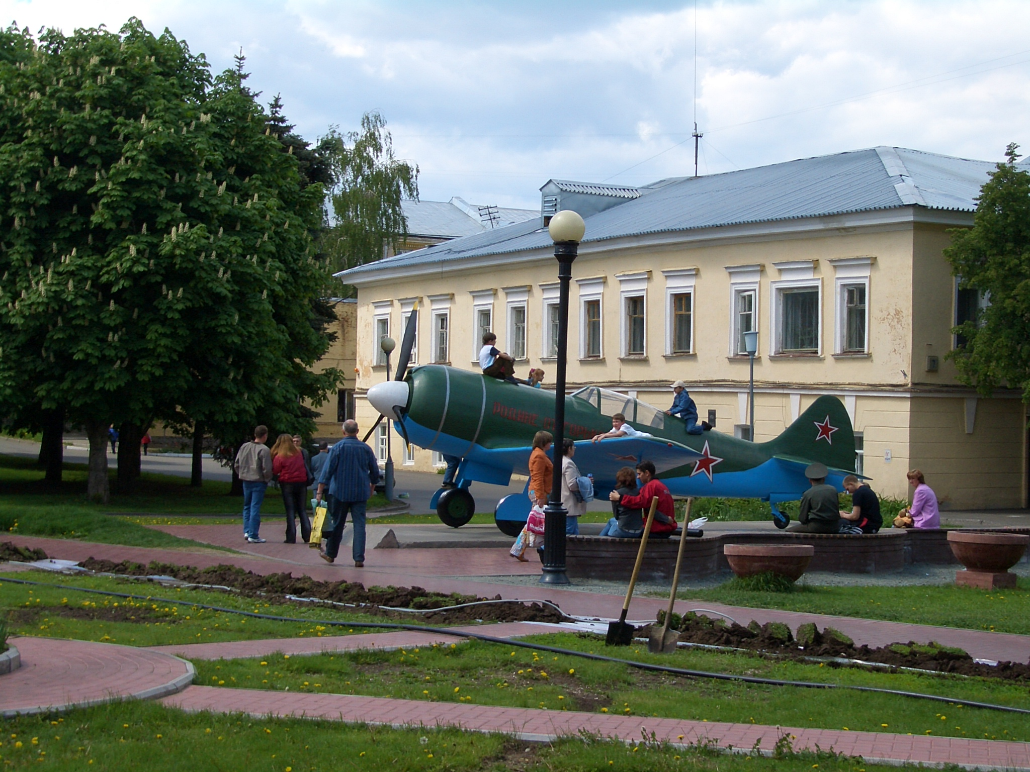 Kids playing on a WWII era airplane displayed in Nizhny Novgorod Kremlin (Lavochkin La-7 replica)